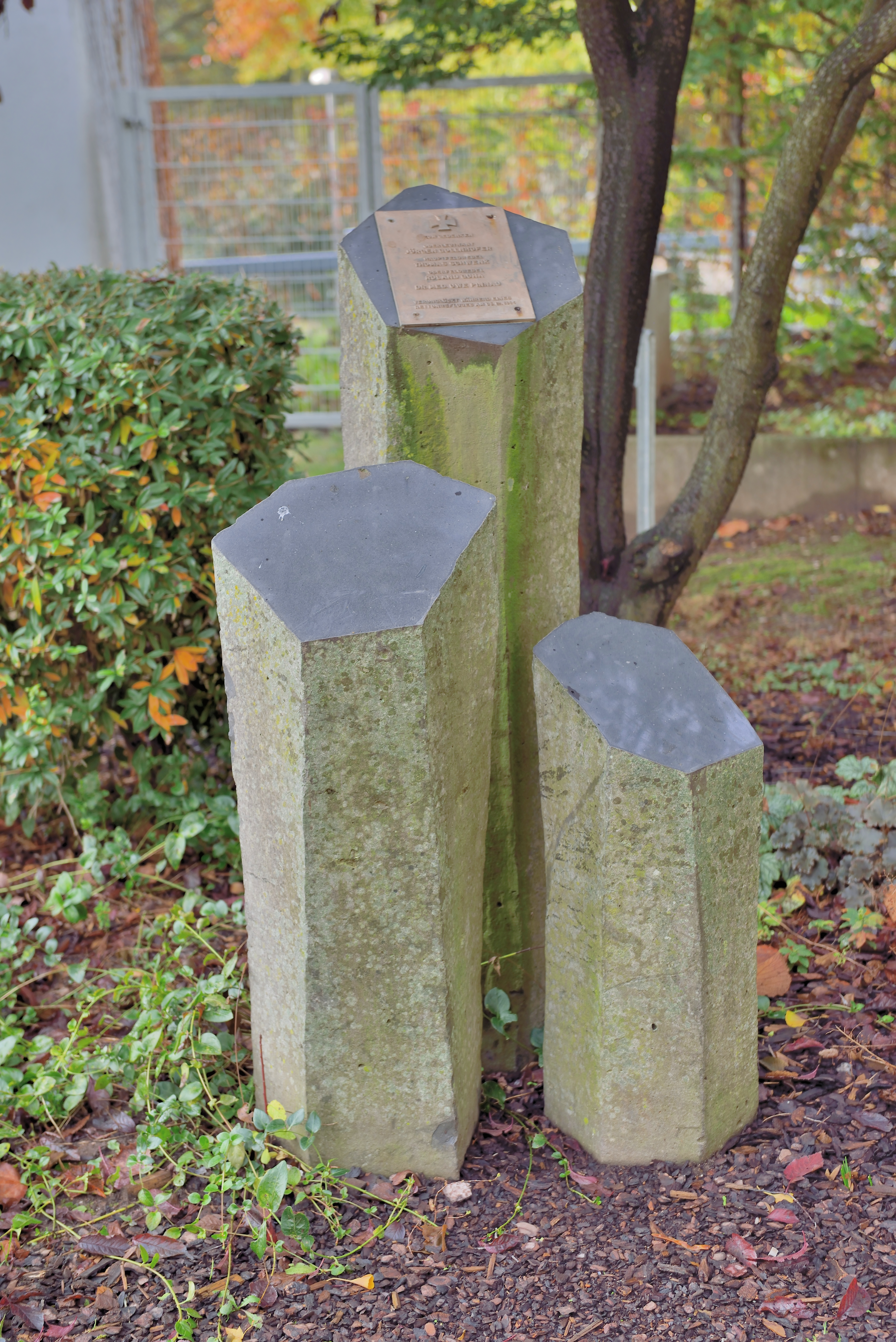 Mannheim television tower, memorial stone